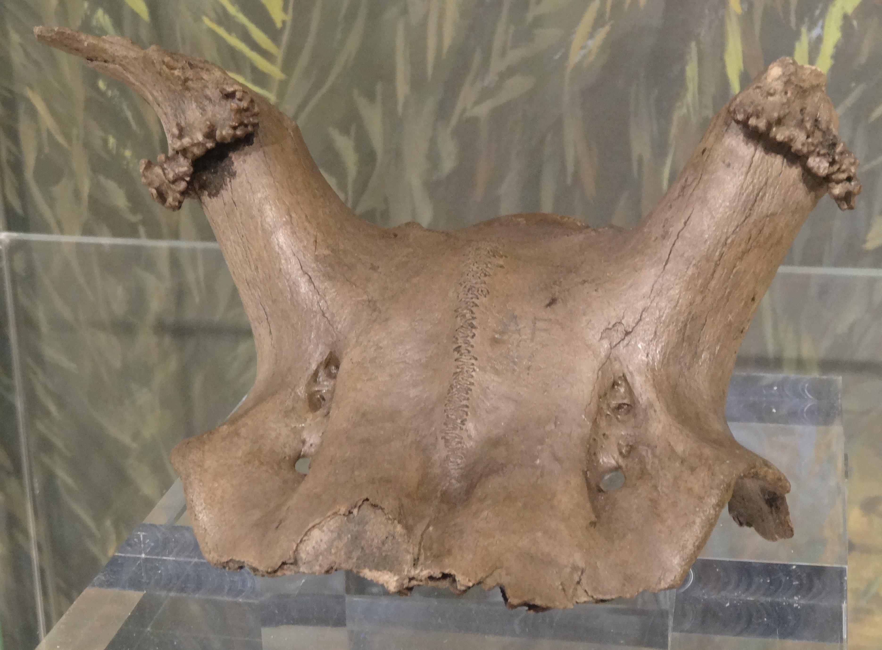 Star Carr collection at Yorkshire museum - mesolithic headdress made from deer skull. From the earliest known post glacial settlement in England